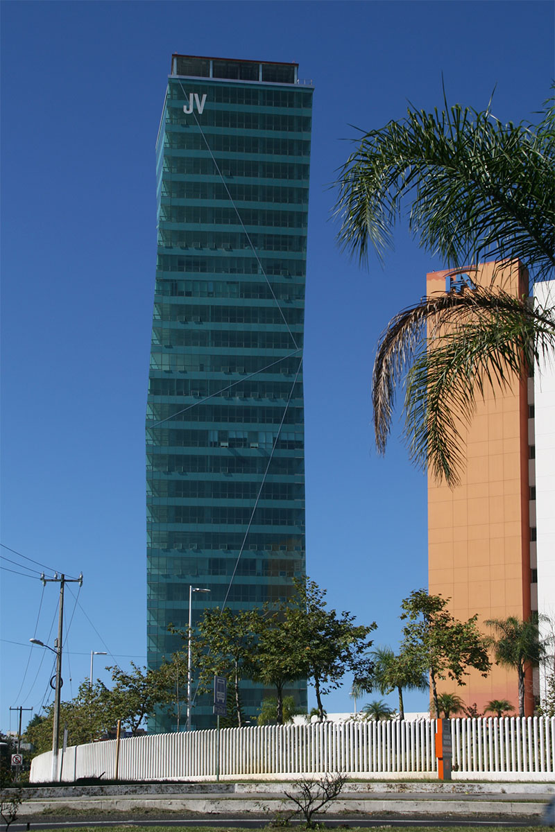 Centro Mayor Tower - photographed from Av. Lazaro Cardenas. Xalapa, Ver.